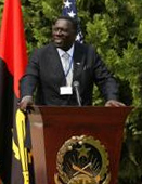 Angolan diplomat and political figure Assunção dos Anjos. At the time of the photo, he was Angola's Angolan Minister of Foreign Affairs.